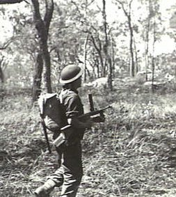 WATSONVILLE AREA, QLD. 1944-04-28. VX90169 PRIVATE P. CRONIN (1) OF THE 2/6TH INFANTRY BATTALION ADVANCING TOWARDS JAP HILL FIRING HIS OWEN GUN FROM THE HIP DURING A TRAINING EXERCISE. Australian War Memorial, copyright expired, public domain. Image 066097.